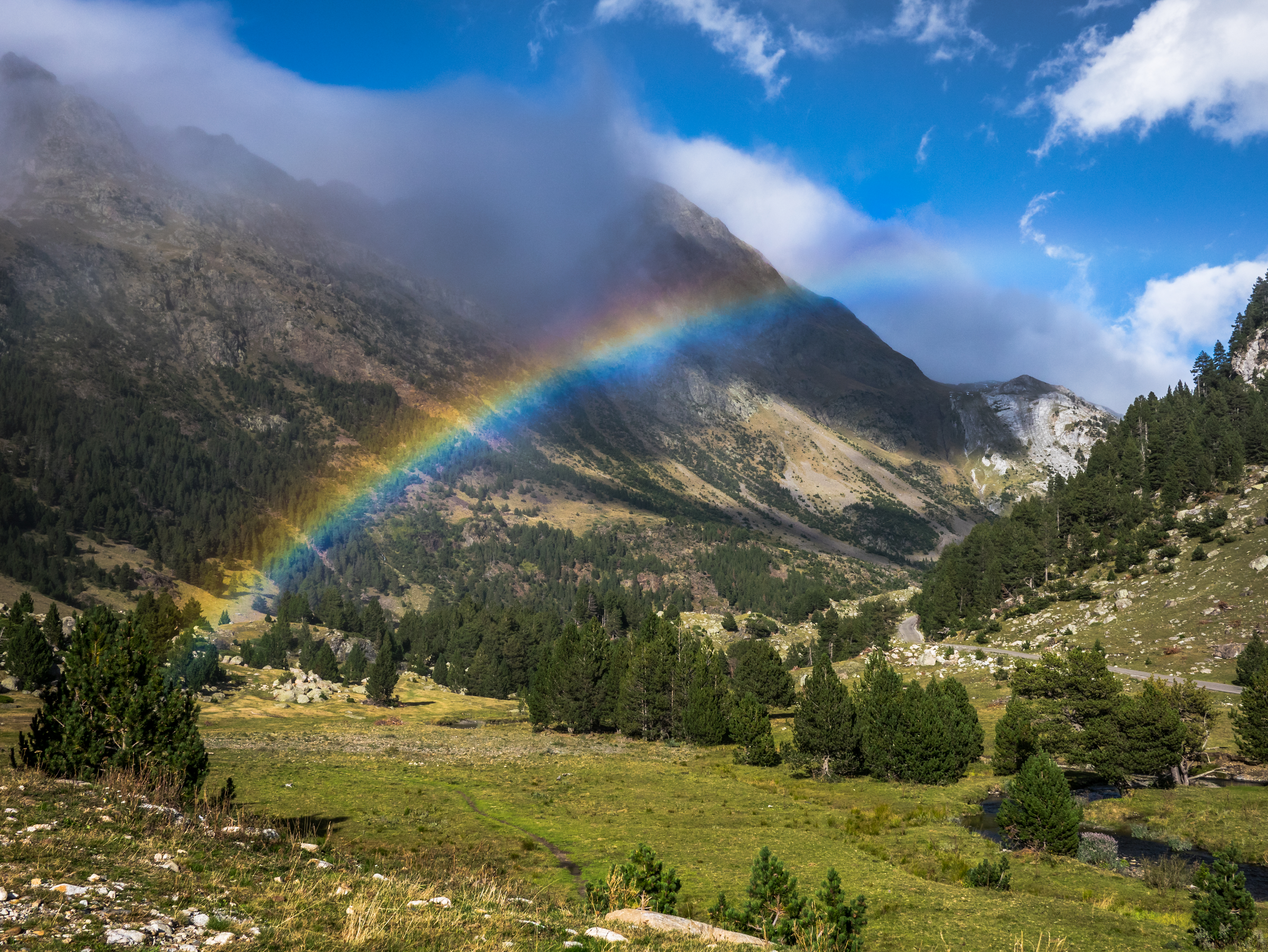 Rainbow over the Llanos del Hospital plains, Benasque. Huesca, Aragon, Spain